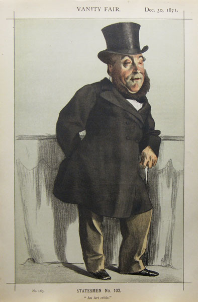 Caricature of William Henry Gregory (1817-1892). Caption read "An art critic".